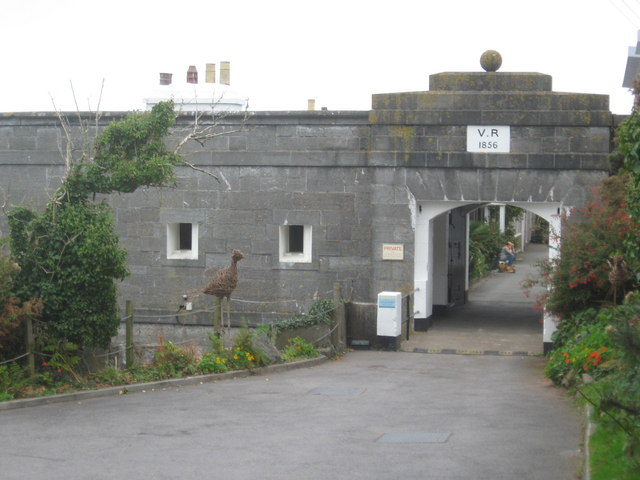 Dale Fort As the date shows this was built at a time when we still worried about a French invasion.